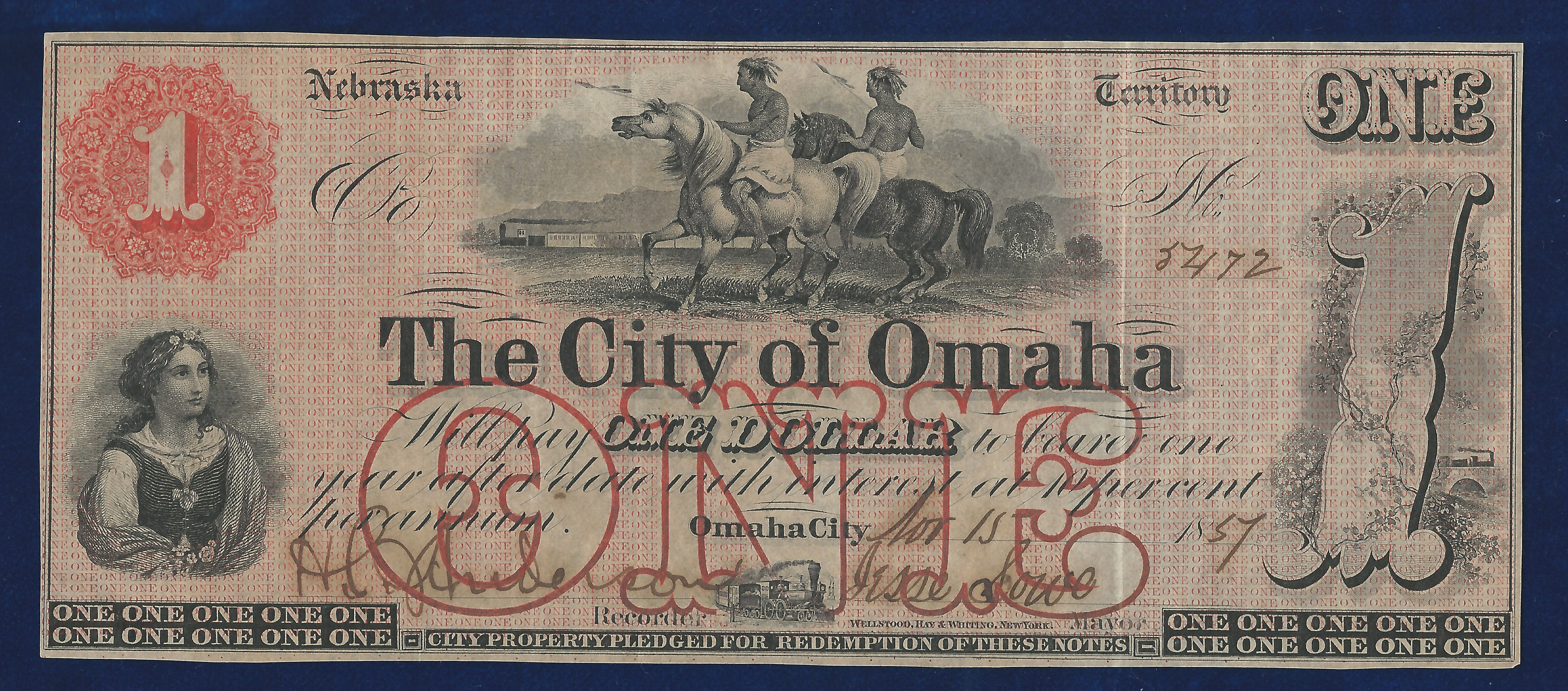 Jesse Lowe, 1814 Raleigh, North Carolina - 1868 Omaha, Nebraska 2 native Americans riding l., the vision of a railway train steaming l. in the background. 4 lines in the centre: "The City of Omaha Will pay ONE DOLLAR to bearer one year after date with interest at 10 per cent per annum." This note is signed by the first mayor of Omaha: Jesse Lowe. Omaha City Nov 15 1857. Hand written No. 5472 at upper r. Printer: Wellstood, Hay & Whitting, New York. Nebraska State Historical Society, Catalog Number 7302-23 Condition: A very high grade for this issue. EXTREMELY FINE.